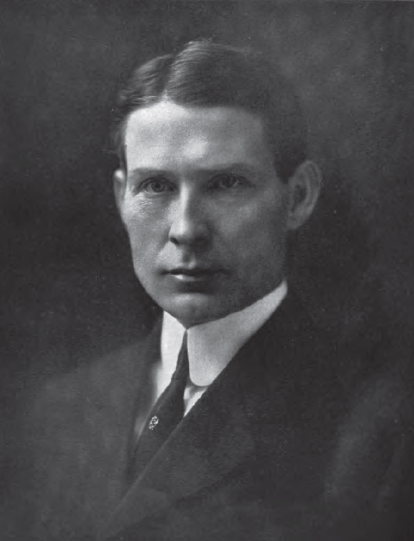 Ulysses G. Denman, an Ohio jurist.